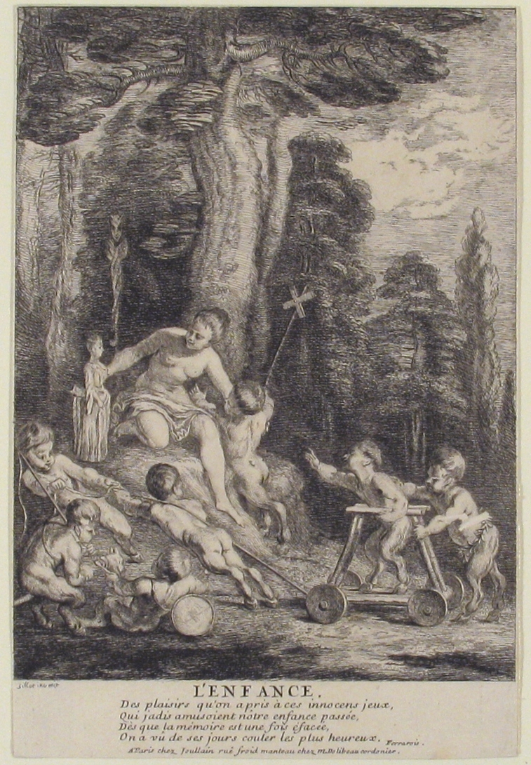 Print; Prints